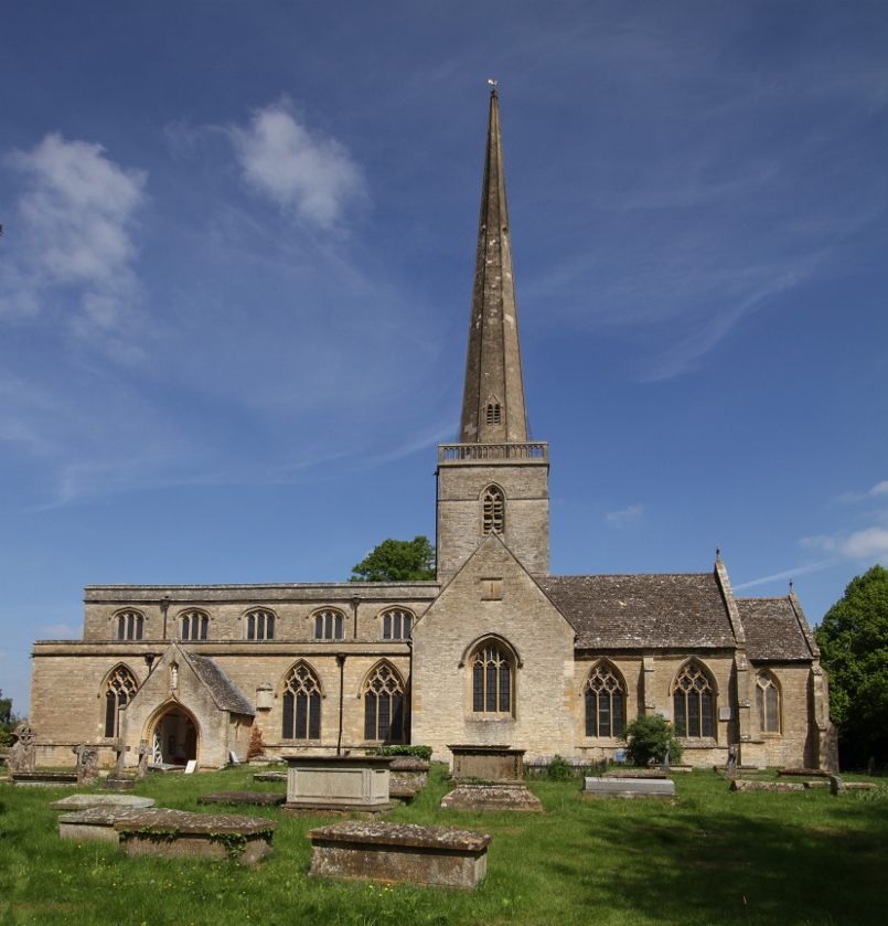 Parish church of St Mary the Virgin, Kidlington, Oxfordshire, seen from the south